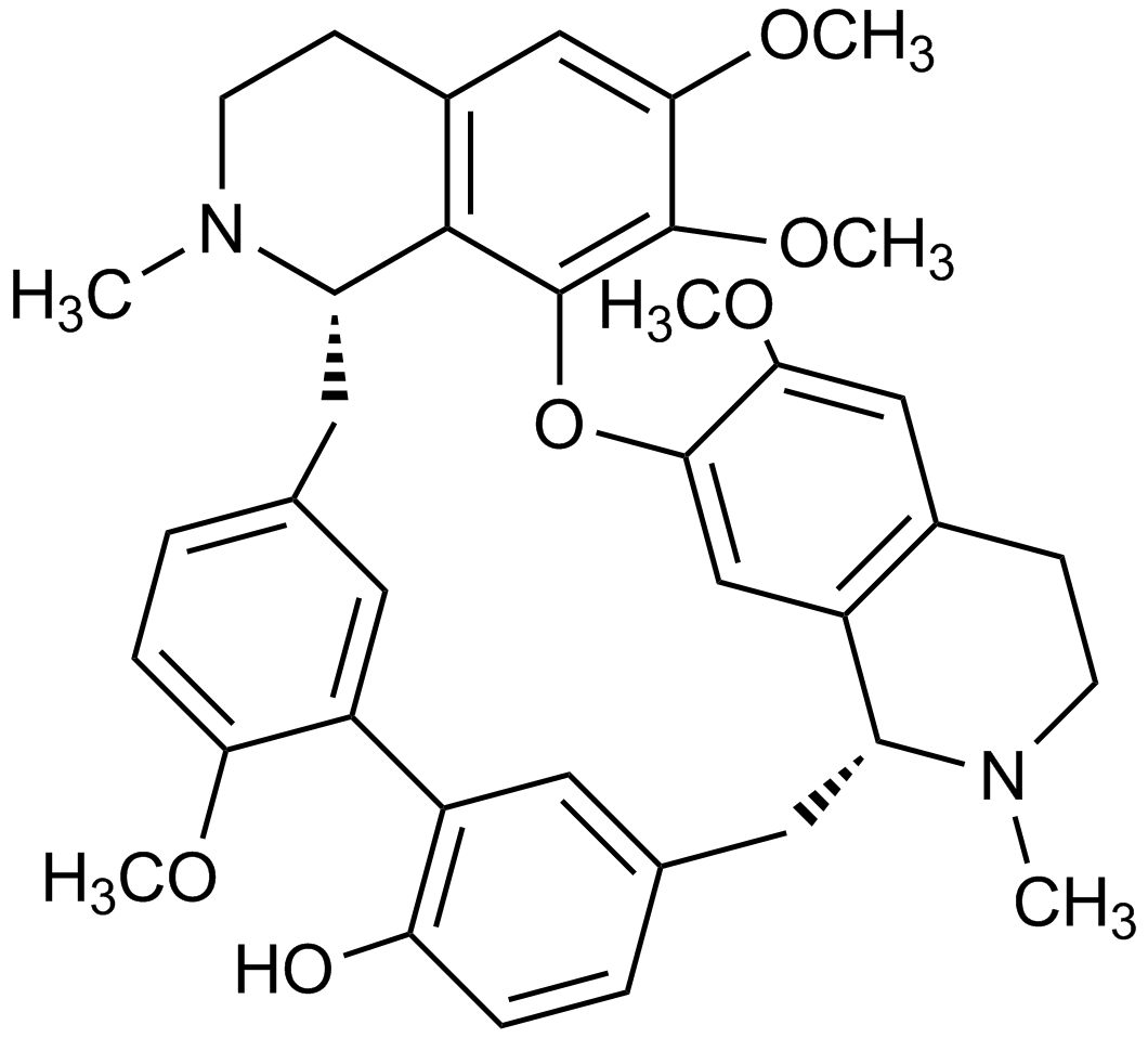 Chemical structure of rodiasine